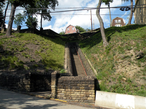 Picture of the Parkway Steps located between Parkway and North Avenues in Chalfant, Pennsylvania, on August 7, 2010. Built in 1936, through the efforts of the Works Progress Administration, the steps are on the List of Pittsburgh History and Landmarks Foundation Historic Landmarks.